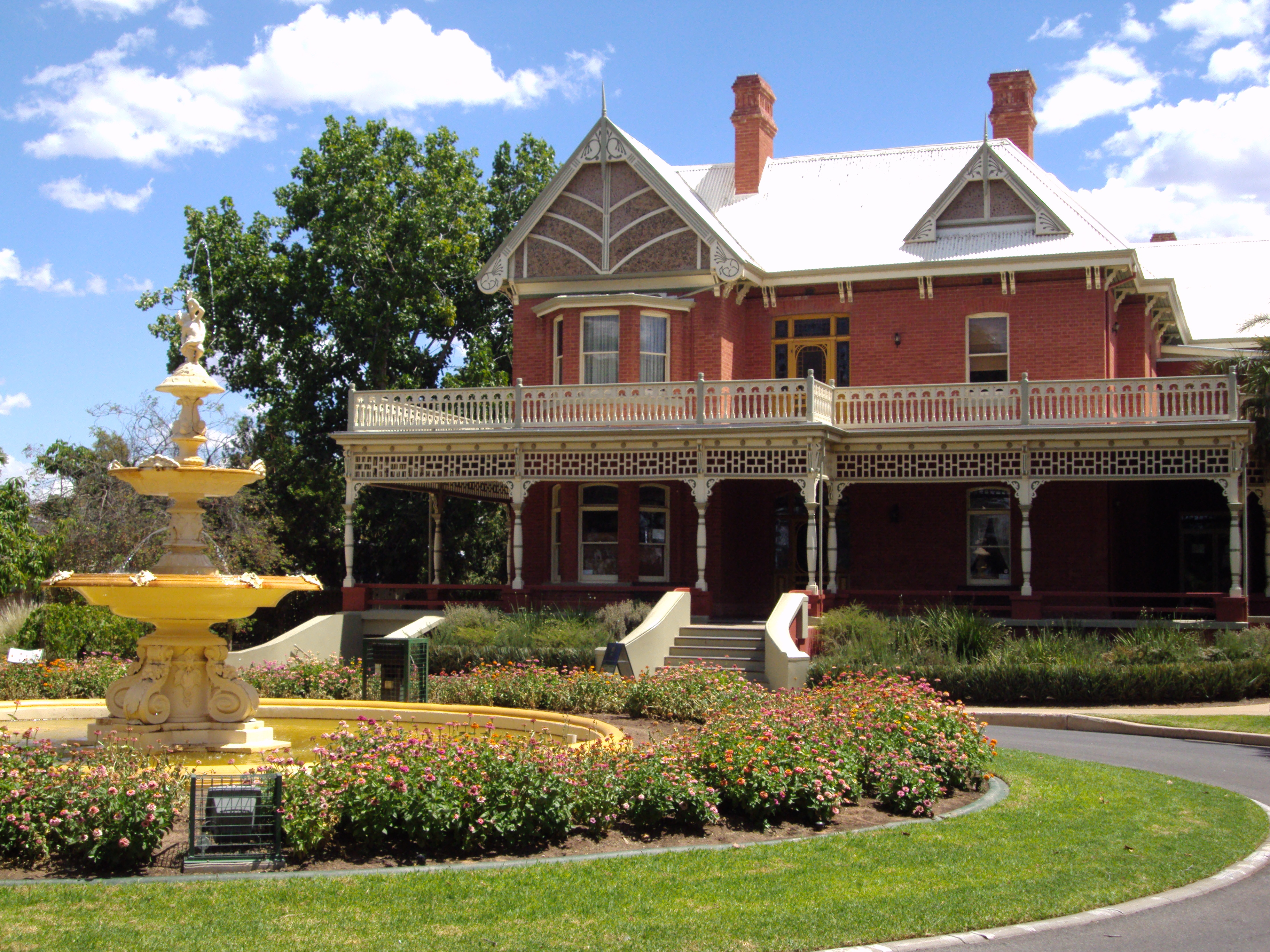 The Rio Vista residence in Mildura, Victoria.